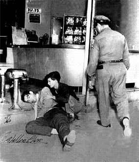 Havana Humboldt 7 Killings